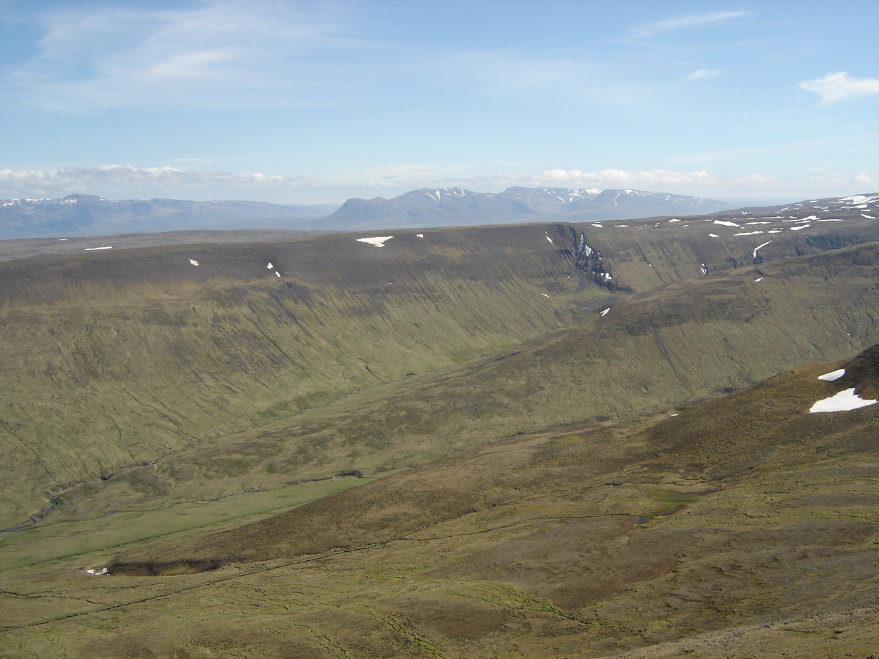 View of Þorgrímsstaðadalur and Katadalur from Geitafell.